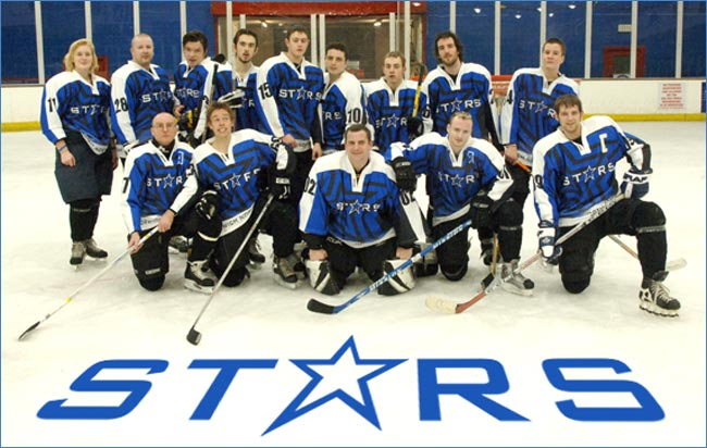 Norwich North Stars Ice Hockey Team